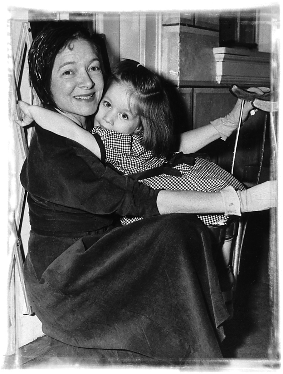 Actress Helen Hayes MacArthur embraces a young patient at Helen Hayes Hospital in West Haverstraw, NY in 1945.